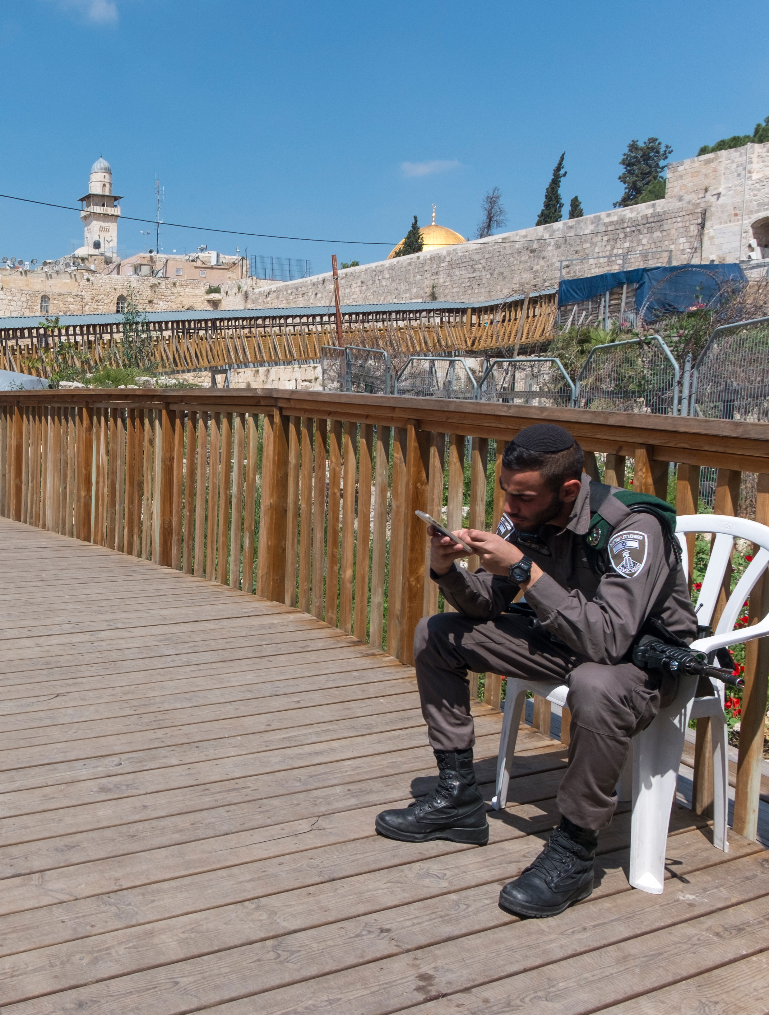 old town of Jerusalem, israelic soldier